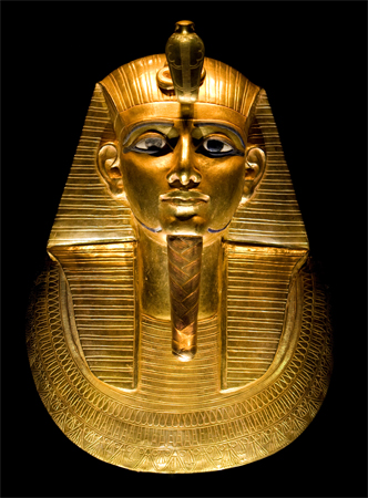 The Golden Mask of Psusennes I at the King Tut and the Golden Age of the Pharaohs Exhibition - Atlanta Civic Center, 10 November 2008. Photograph by Brett Weinstein (Wikipedia user Nrbelex). NOTE: Do NOT upload a higher resolution image of this photo. The OTRS permission only allows a 332 X 450 pixel version of this image to be used on Wikipedia/WikiCommons. Thank You. Originally on flickr